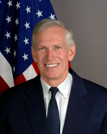 James F. Moriarty, Chairman of the Board The American Institute in Taiwan